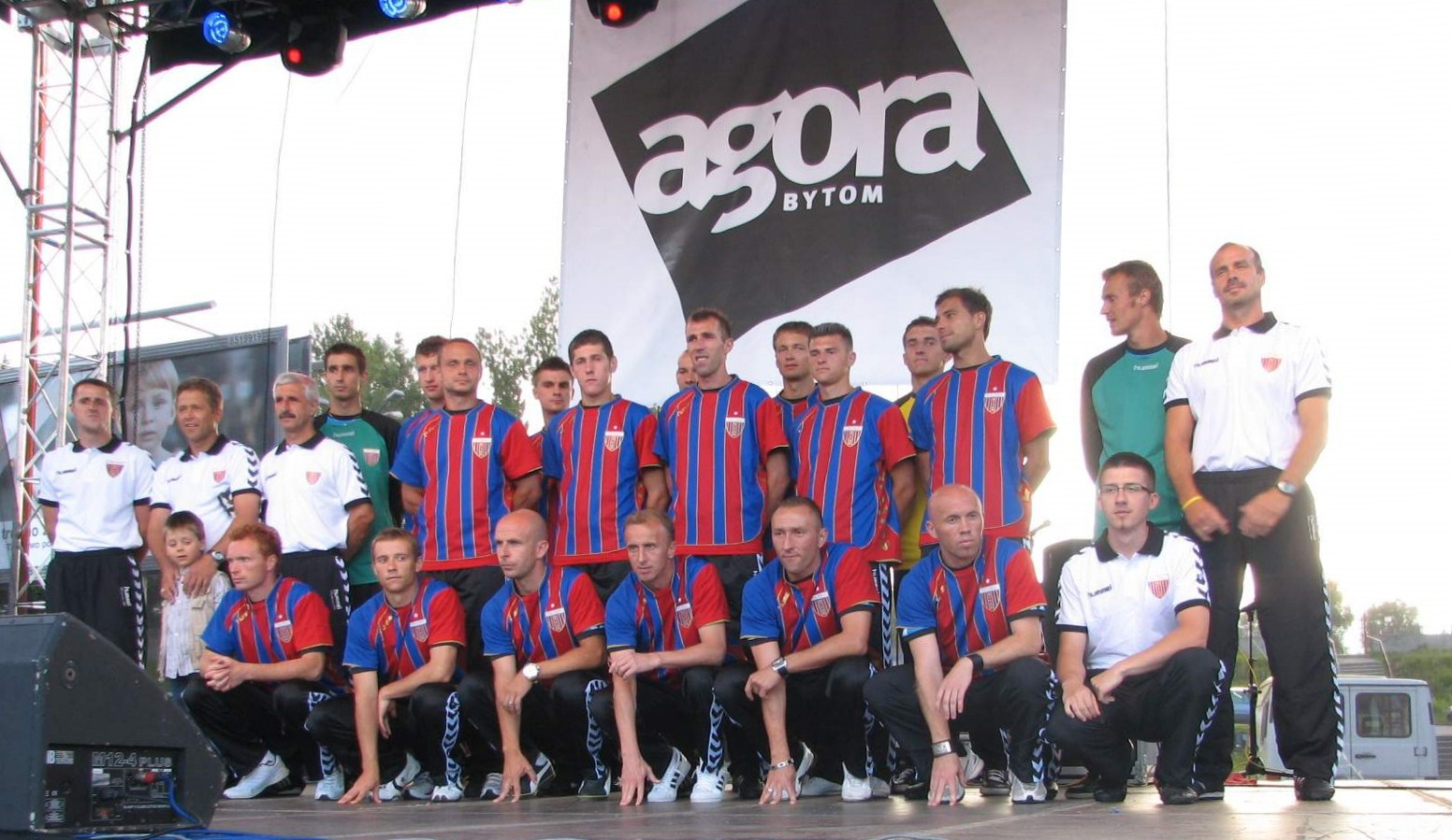 Polonia Bytom - team presentation before the 2009/2010 season on July 25th, 2009.